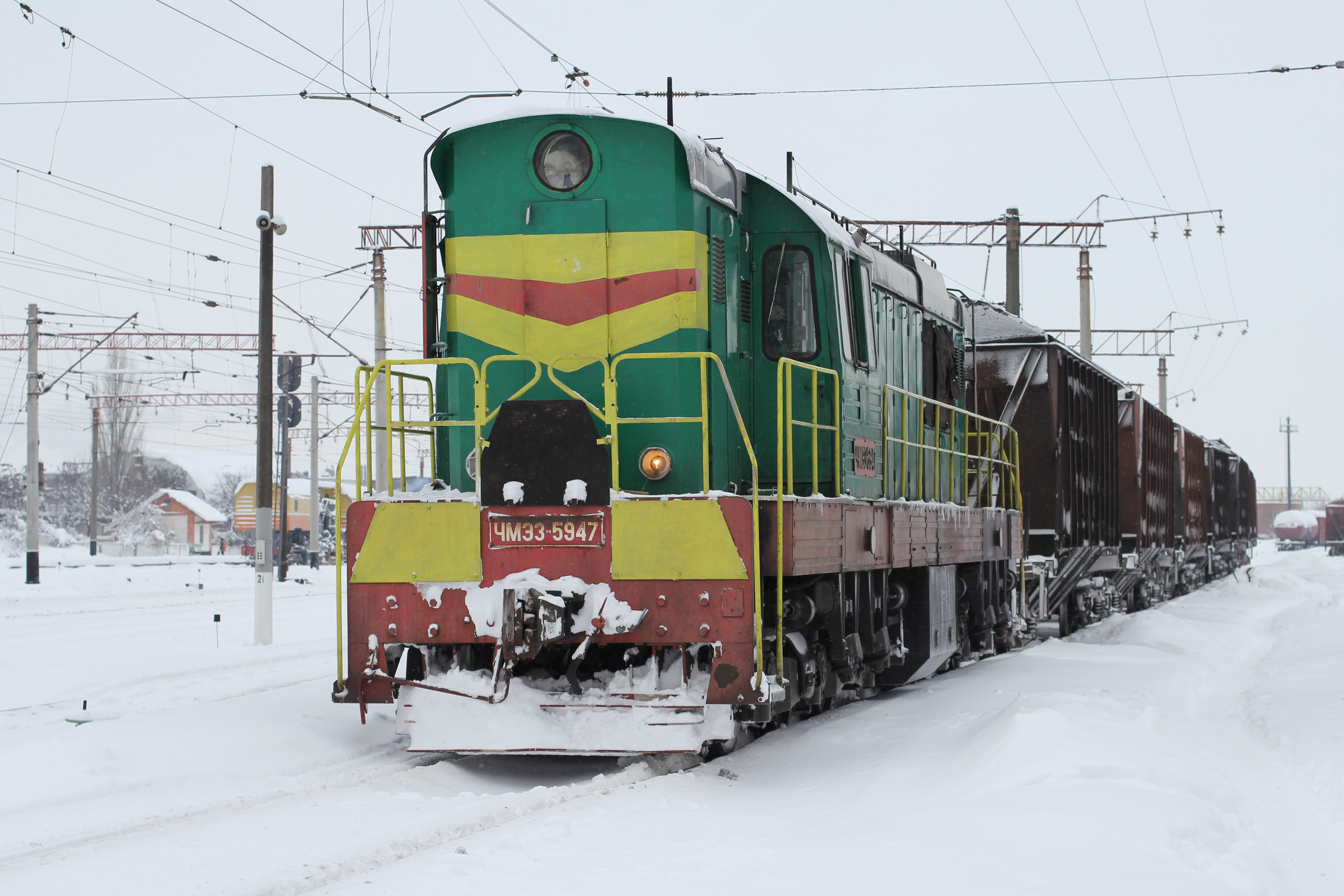 Diesel locomotive ChME3-5947 in Vinnitsa railway station. This locomotive was manufactured in November, 1987.